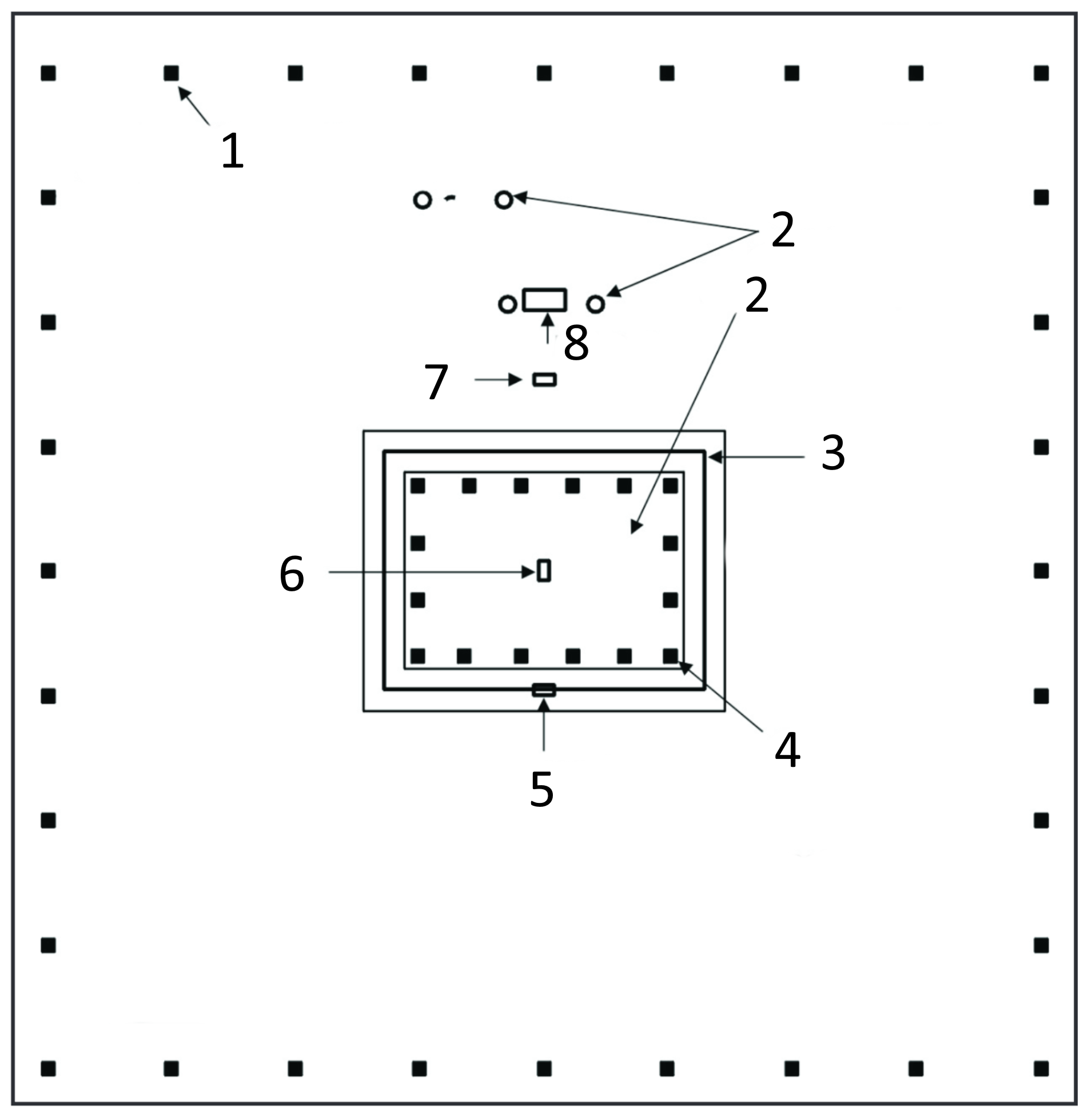 A conceptual design of WIPP’s permanent marker system. DOE is evaluating other concepts. A final design will be selected prior to WIPP closure. Image not in scale. Shafts marked by "o". 1 - 32 large surface markers on Controlled Area Perimeter 2 - small subsurface markers buried in shaft seals and within the repository footprint 3 - Berm (buried in: radar reflector, magnets, small subsurface markers) 4 - 16 large surface markers on repository footprint 5 - buried storage room in the berm 6 - information center 7 - buried storage room 8 - "hot cell" - reinforced concrete archeological monument